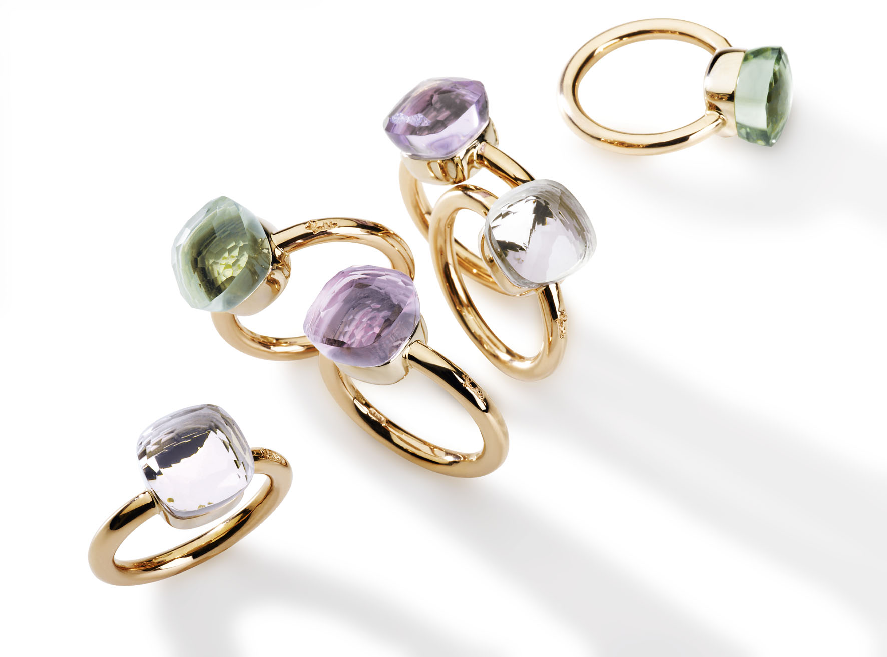 a pomellato ring shooting